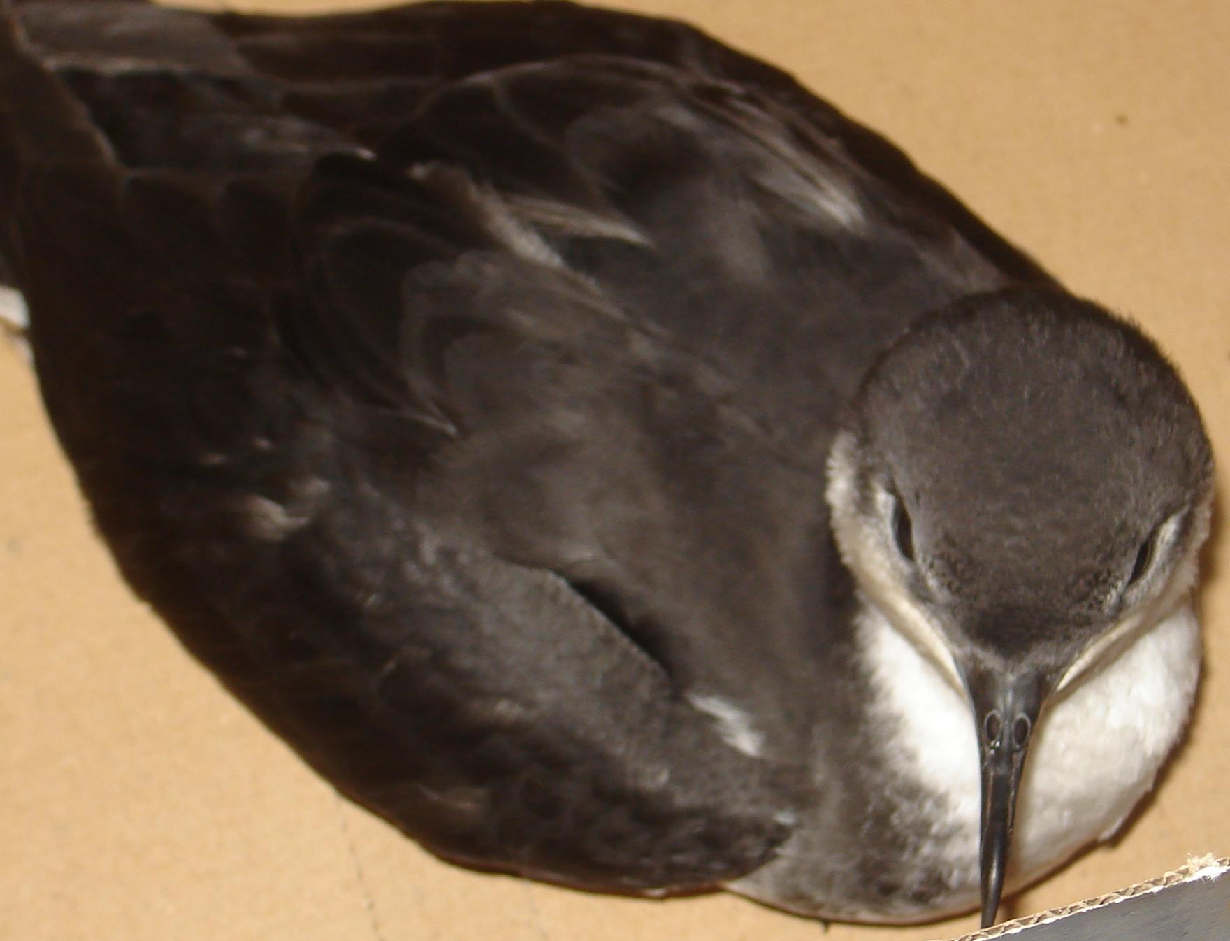 Audubon's Shearwater Puffinus lherminieri bailloni of reunion island